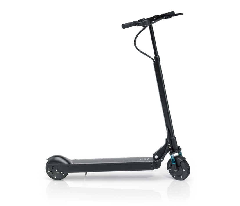 Egret One eScooter